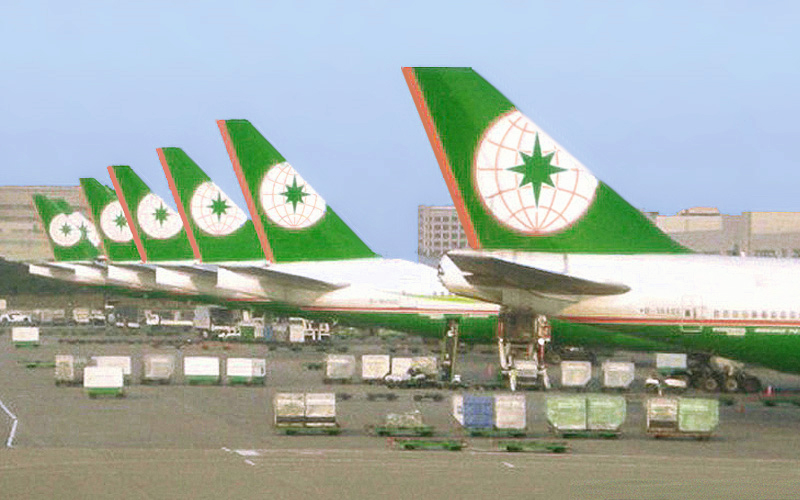 Tails of EVA Air aircraft at TPE